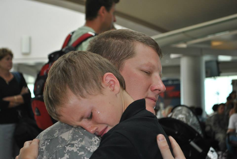 Seth Singleton says last goodbye to Dad before deployment.